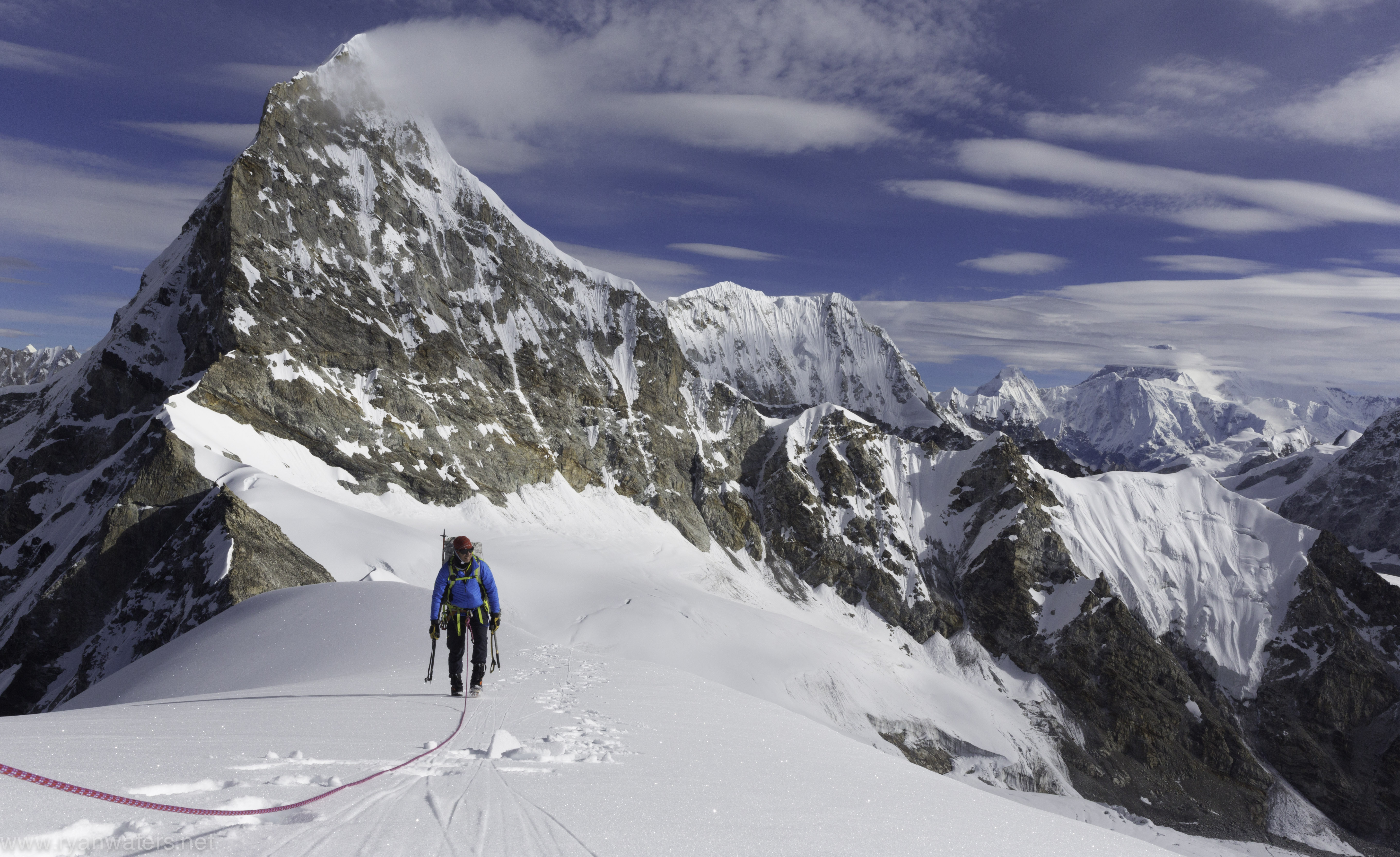 First Ascent to Jabou Ri in Himalayas